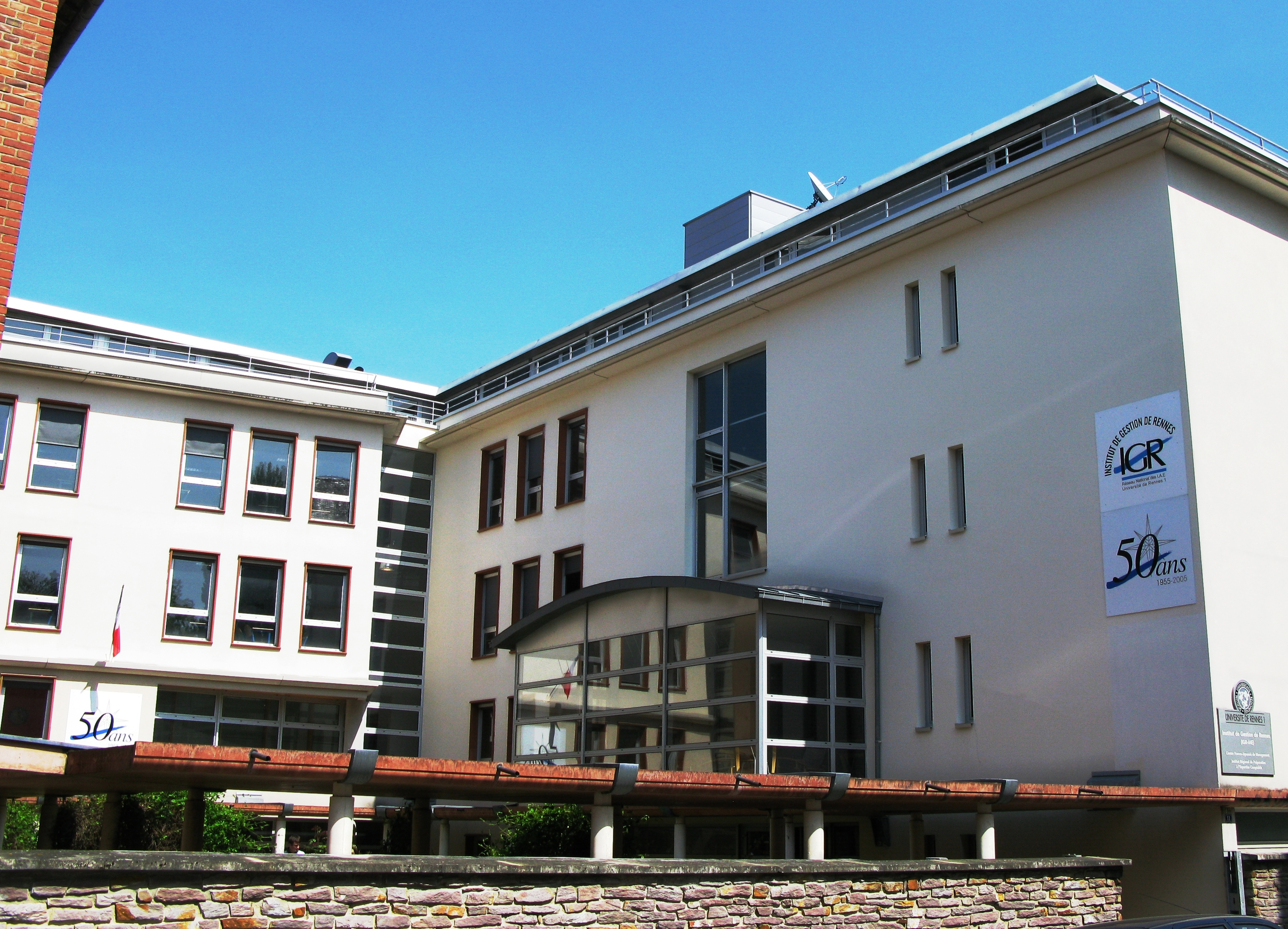 IGR school in Rennes, part of the University of Rennes 1, France.